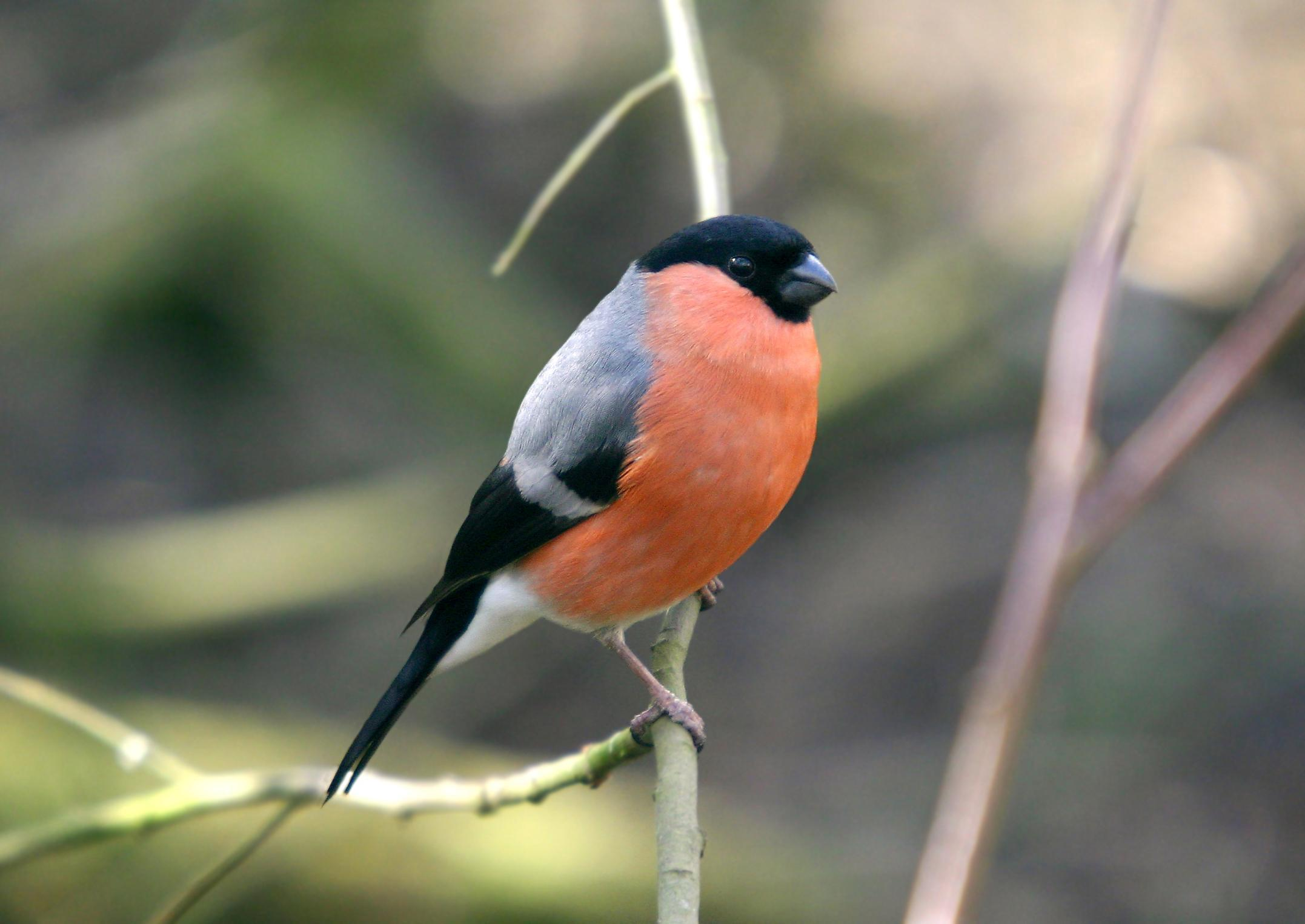 Eurasian bullfinch (Pyrrhula pyrrhula), male